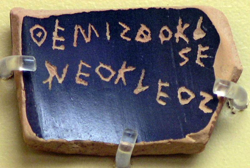 This ostrakon from 482 BC was recovered from a well near the Acropolis. The Athenians had a particular voting technique to remove a citizen from the community. If ostracized, the person was exiled for ten years, and after that time could return and have their property restored. Themistocles was a great Athenian general, but the Spartans worked to have him exiled. After his ostracism, he moved to Persia, Athen's enemy, where King Artaxerxes I made him governor of Magnesia. Ancient Agora Museum in Athens.